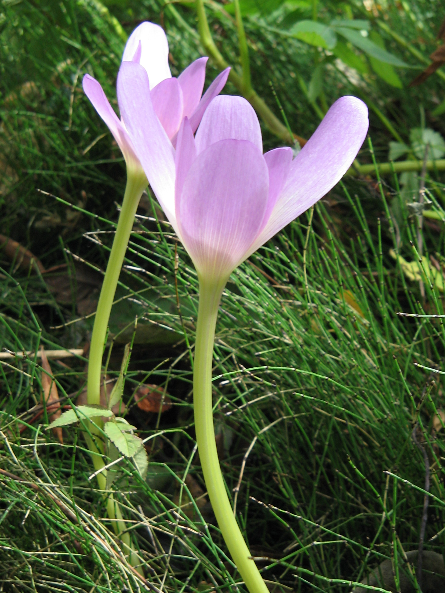 Colchicum speciosum